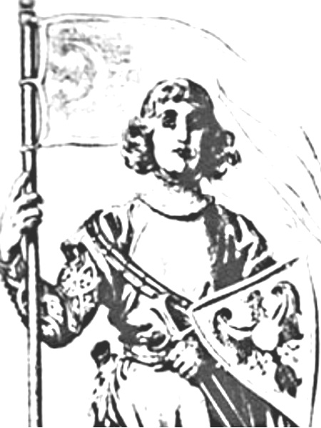 Conrad I of Olesnica